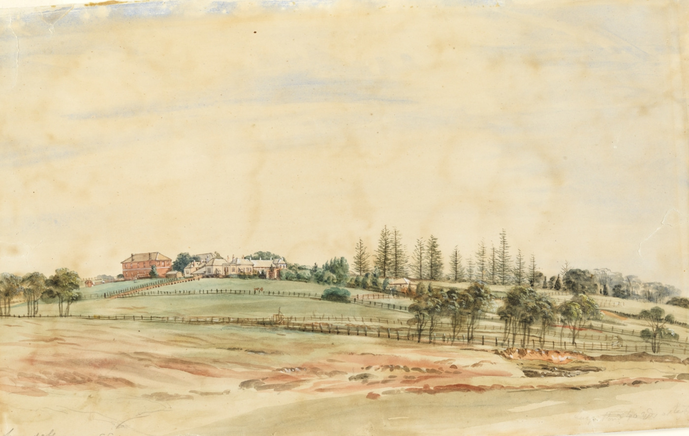 Annandale Farm, painted by Samuel Elyard 1877. location; present day Stanmore, NSW, Australia